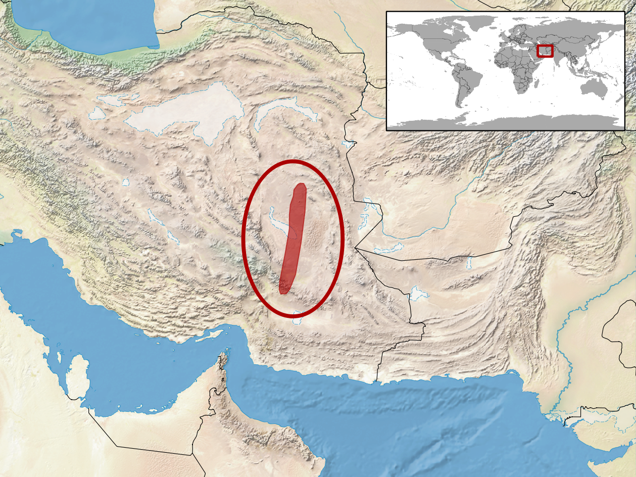 geographic distribution of Rhinogecko misonnei syn Agamura misonnei (Native: Iran, Islamic Republic of)